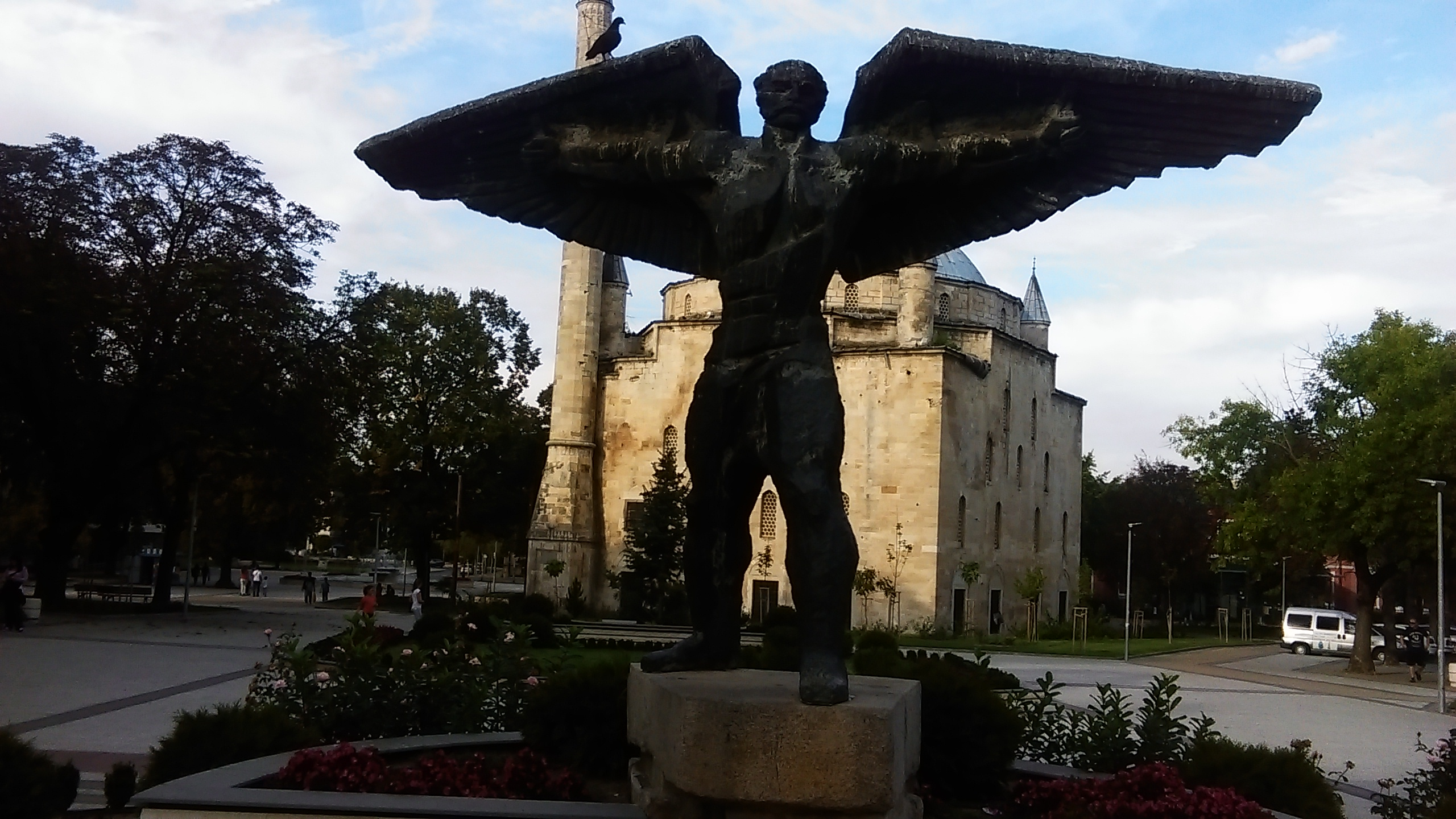 Maystor Manol brfore Ibrahim pasha, a contemporary monumental ensemble in razgrad town center